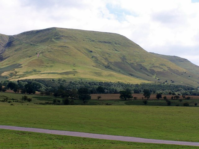 Rhos Fawr View across Rhos Fawr towards the Black Mountains